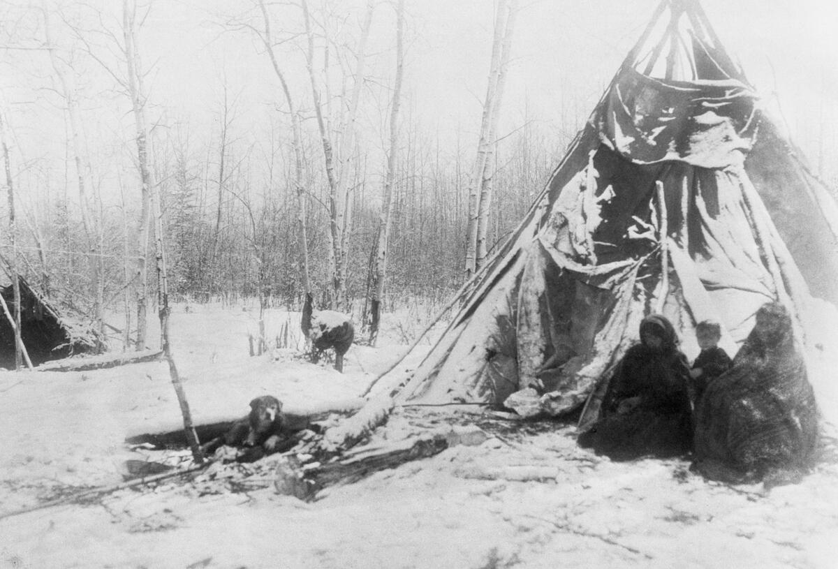 Beaver (Dunneza) tipi in winter near Peace River Alberta - NA-1315-23 Two women and a child huddled in front of tipi. Dog sitting outside tipi.